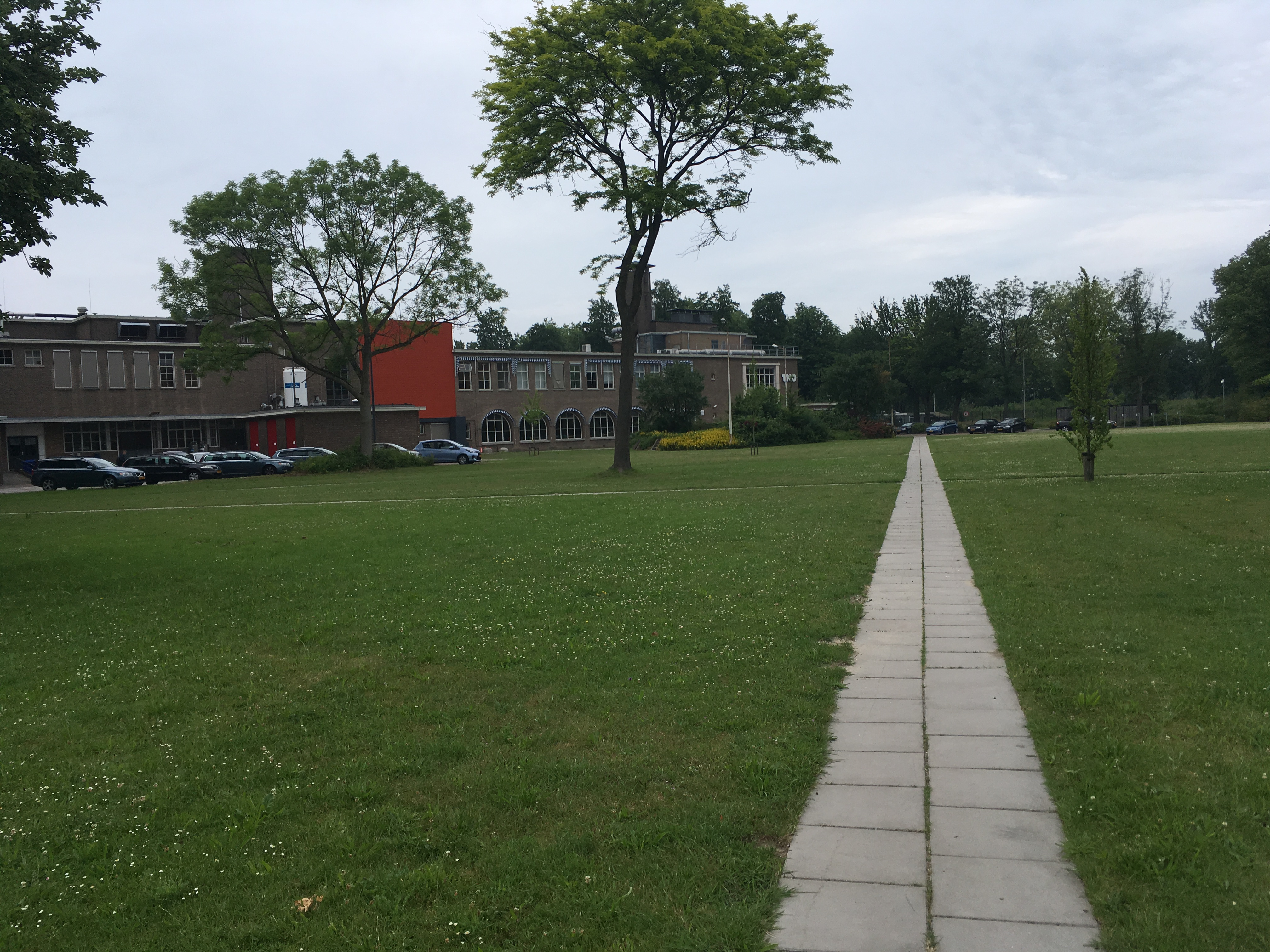 TNO Rijswijk